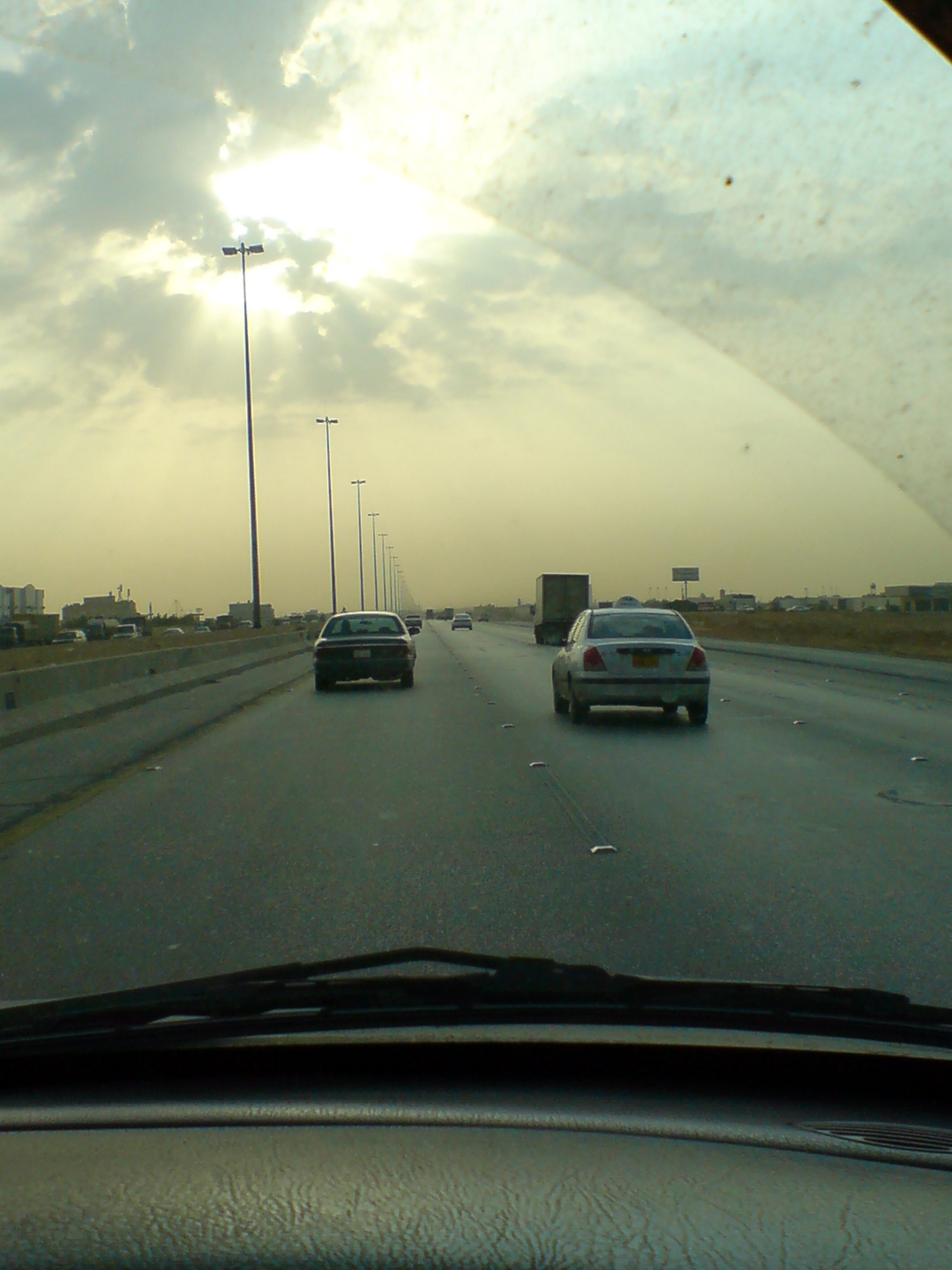 Dammam Highway